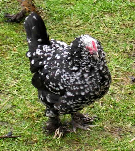 Belgian d'Uccles, colors, Millie Fleur, Black Mottled and White, with beards and muffs.